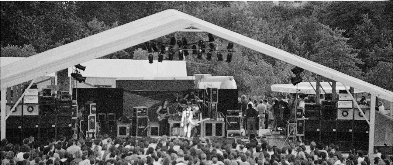 Music stage of the first free open air rock festival in Karlsruhe/Germany called "Das Fest" in 1985. Maanam from Poland is playing.